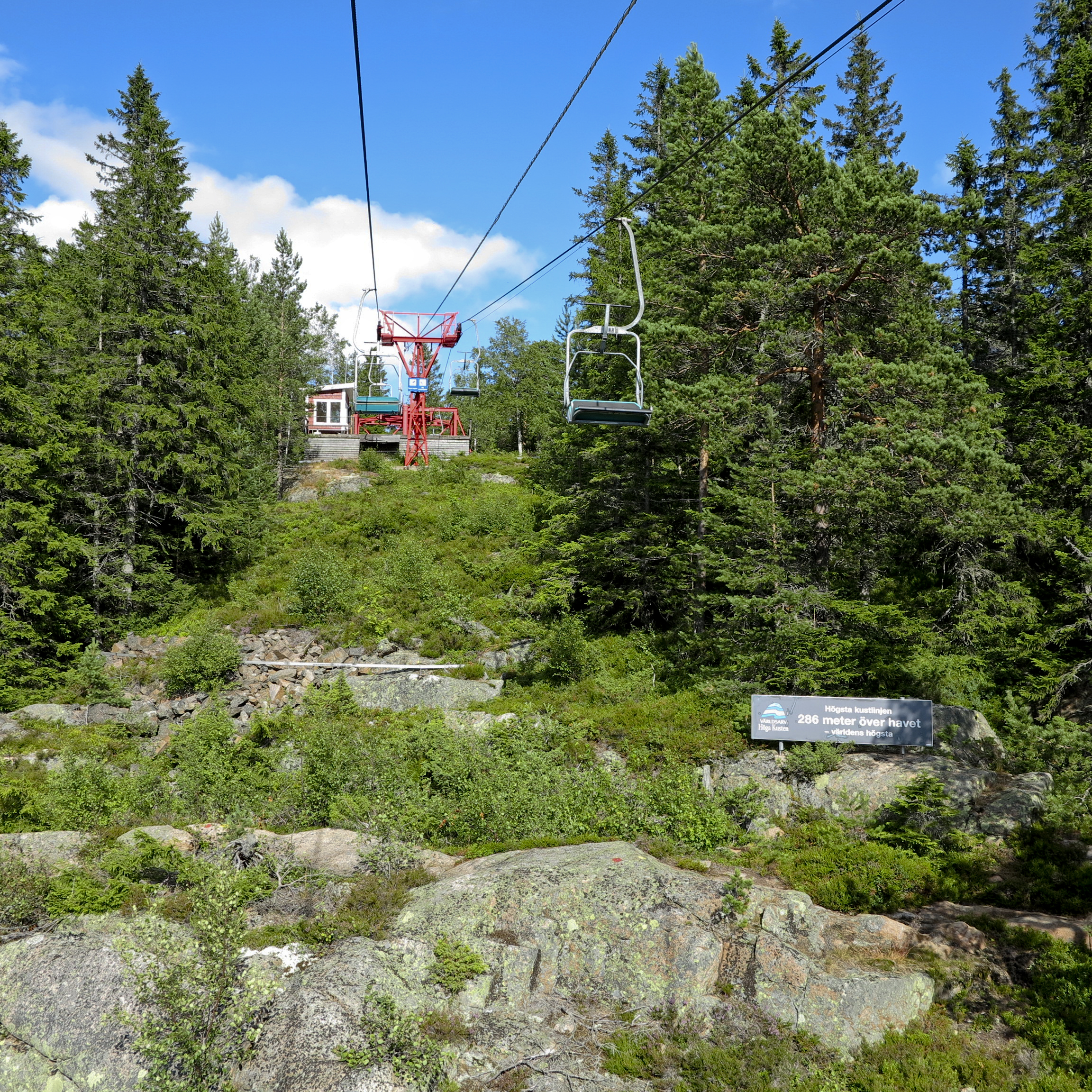 Skuleberget, Kramfors, Ångermanland, Västernorrlands län, Sweden. Going up, +sign for sea-level after isostasy